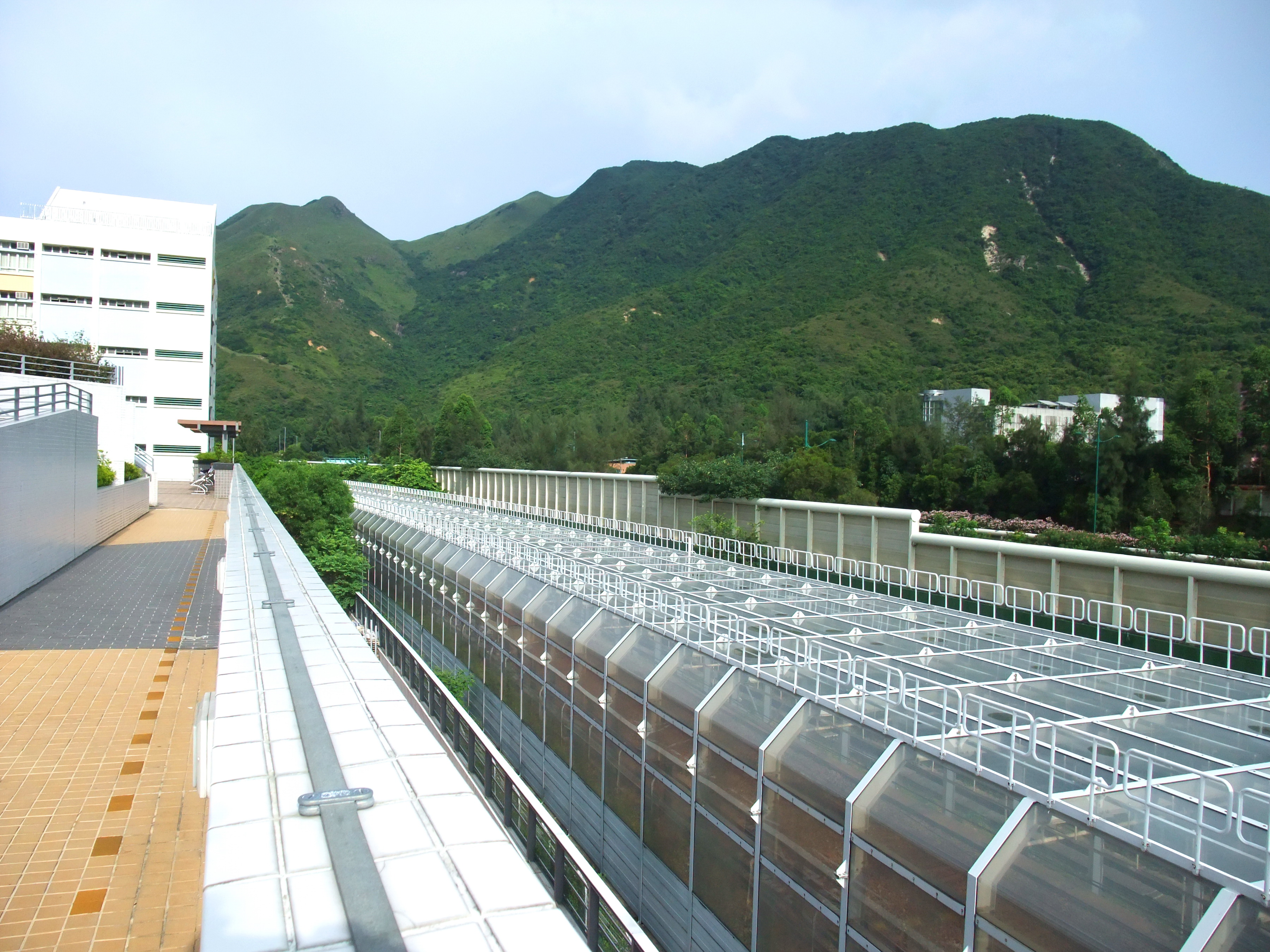 A section of the fully-enclosed acoustic barrier of MTR located south of the Ling Liang Church E Wun Secondary School and Sau Tak Primary School in Tung Chung, Hong Kong.